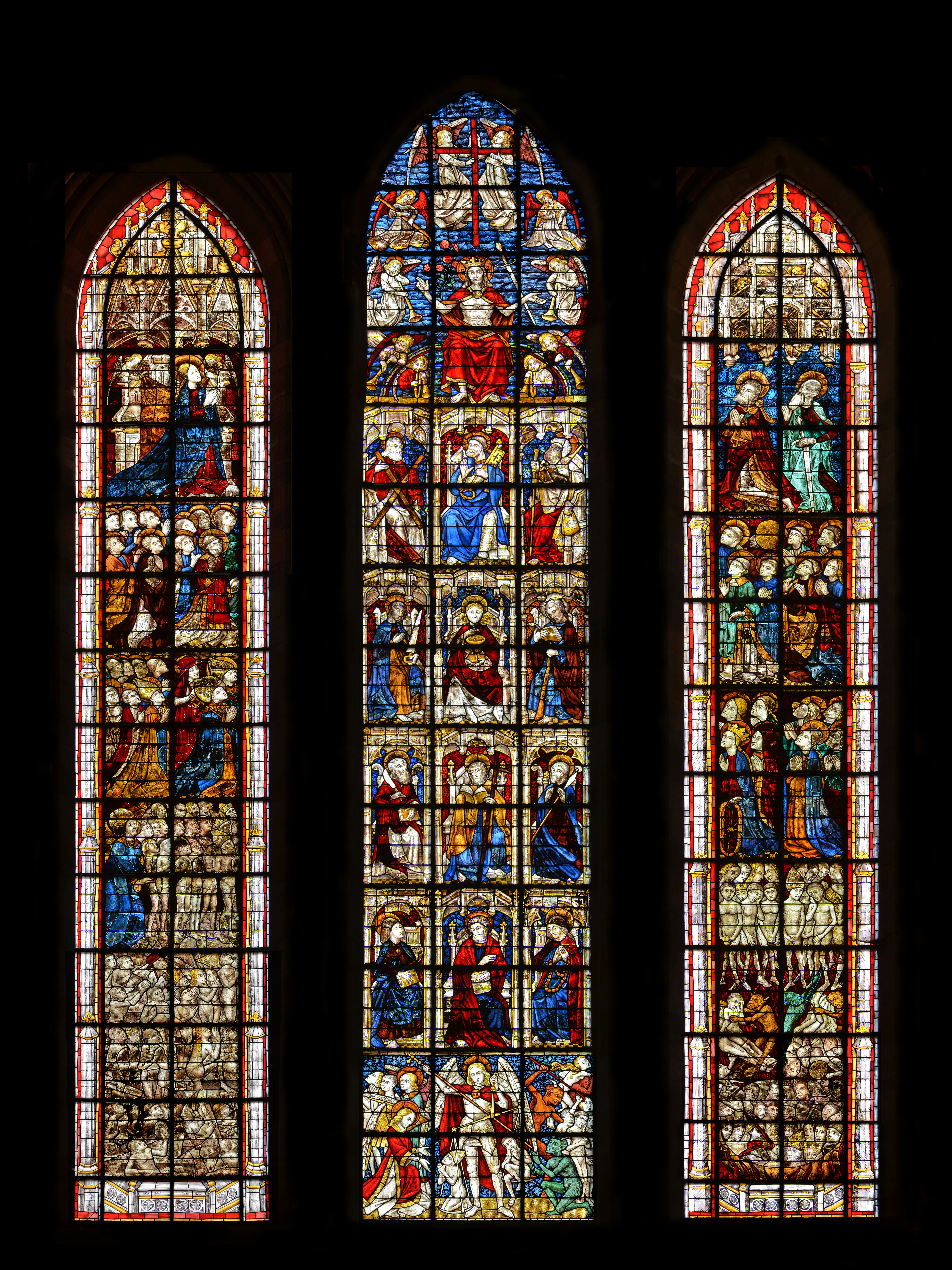 Stained glass windows depicting the Last Judgment (15th century) - Coutances Cathedral - Coutances, Manche, France.